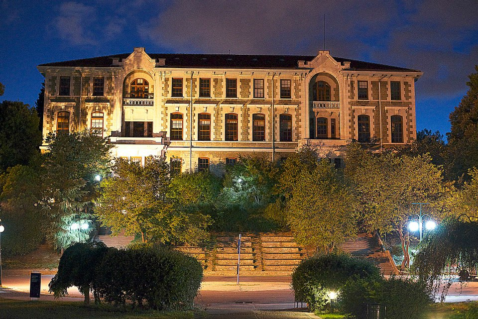 Bogazici University